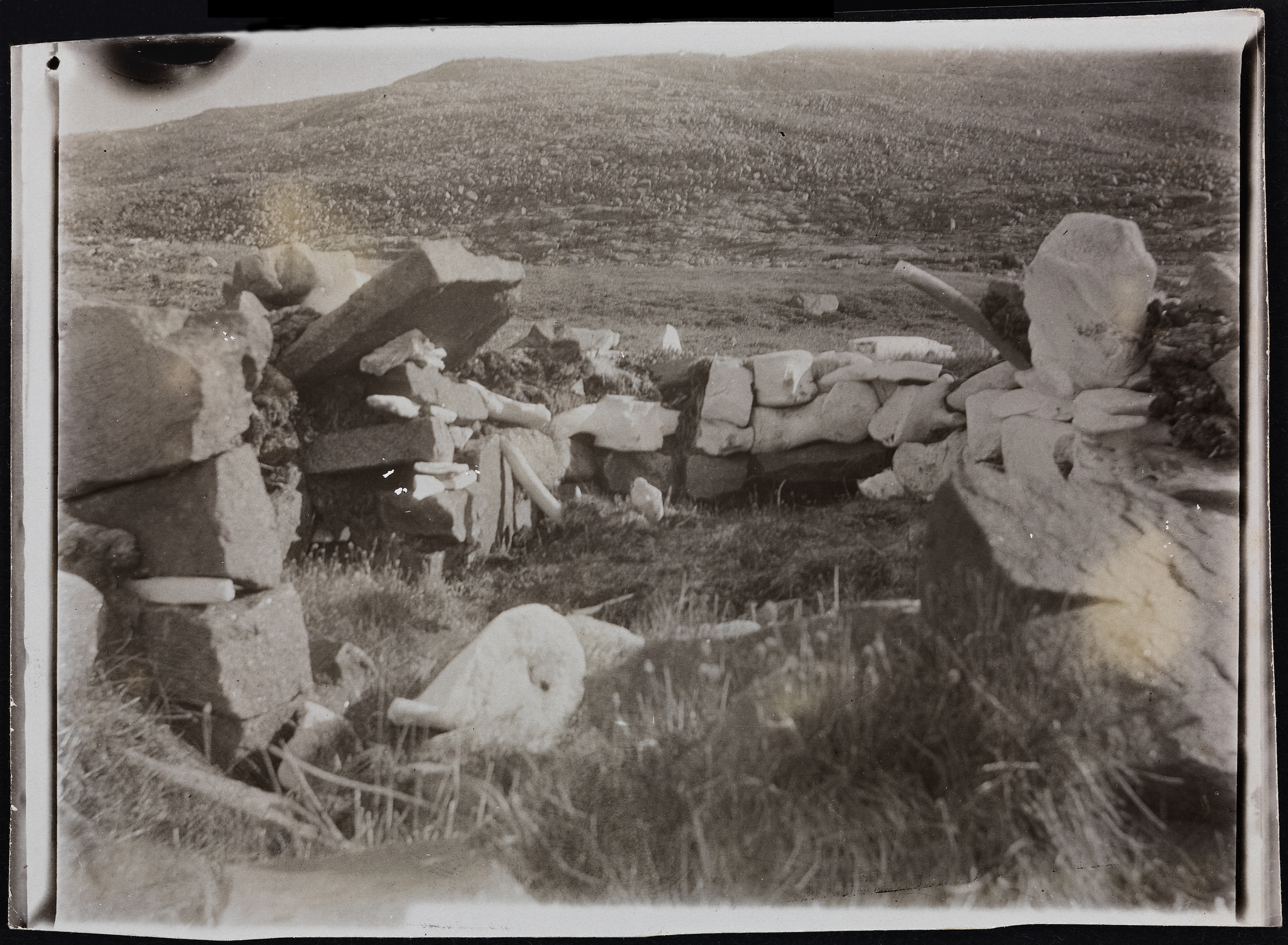 Beskrivelse / Description: Ifølge den danske zoologen Edvard Bay, var hvalbeina fra grønlandshval. 2. Fram-ekspedisjon: Nord-vest-Grønland og øyene nord for Øst-Canada : 1898-1902 / 2nd "Fram" expedition : Northwest Greeland and the islands North of East Canada Dato / Date: 10. juli 1899 Sted / Place: Canada, Nunavut, Ellesmere Island Fotograf / Photographer: ukjent / unknown Digital kopi av original / Digital copy of original: s/h papirpositiv Eier / Owner Institution: Nasjonalbiblioteket / National Library of Norway Lenke / Link: Bildesignatur / Image Number: bldsa_SVpos_0031